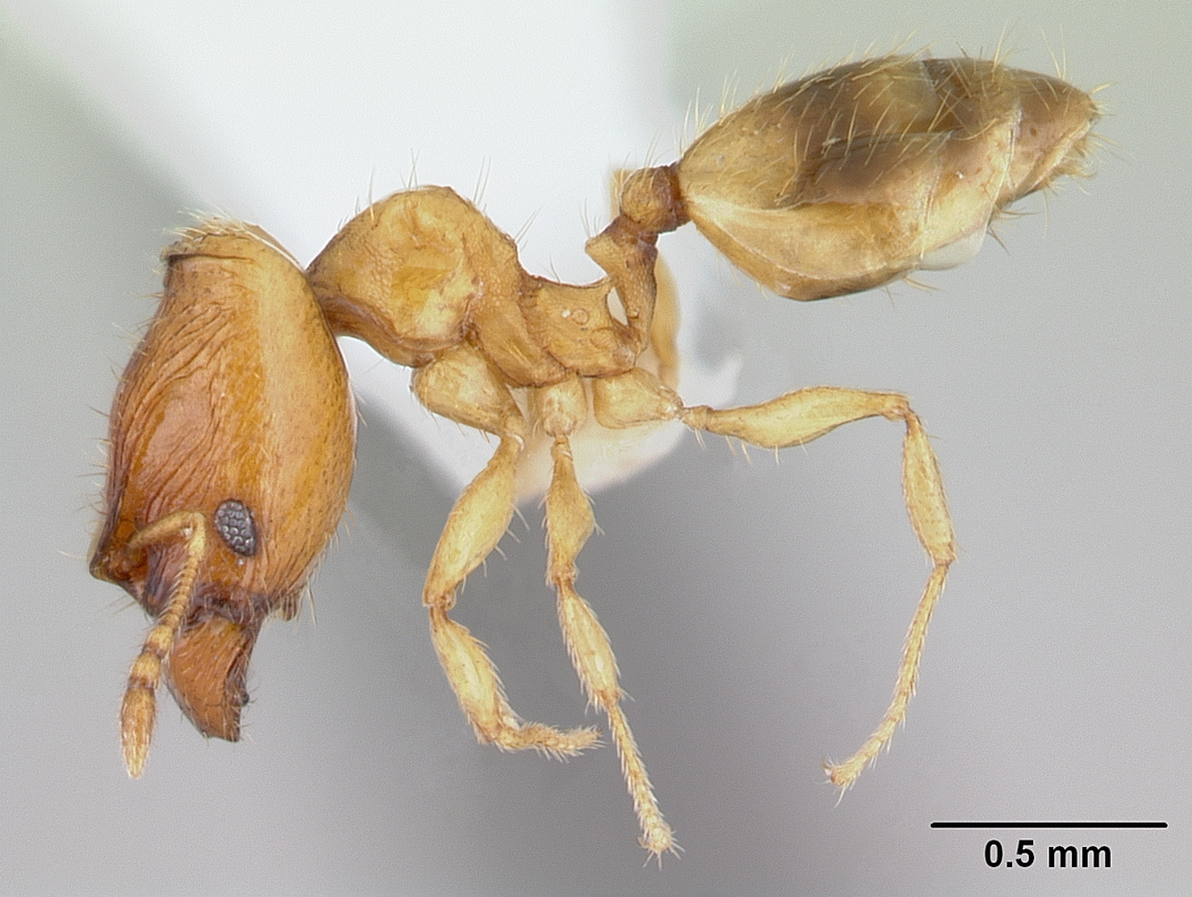 Profile view of ant Pheidole fracticeps specimen casent0178024.